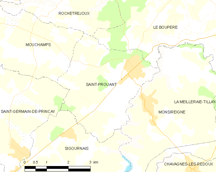 Map of French municipality Saint-Prouant